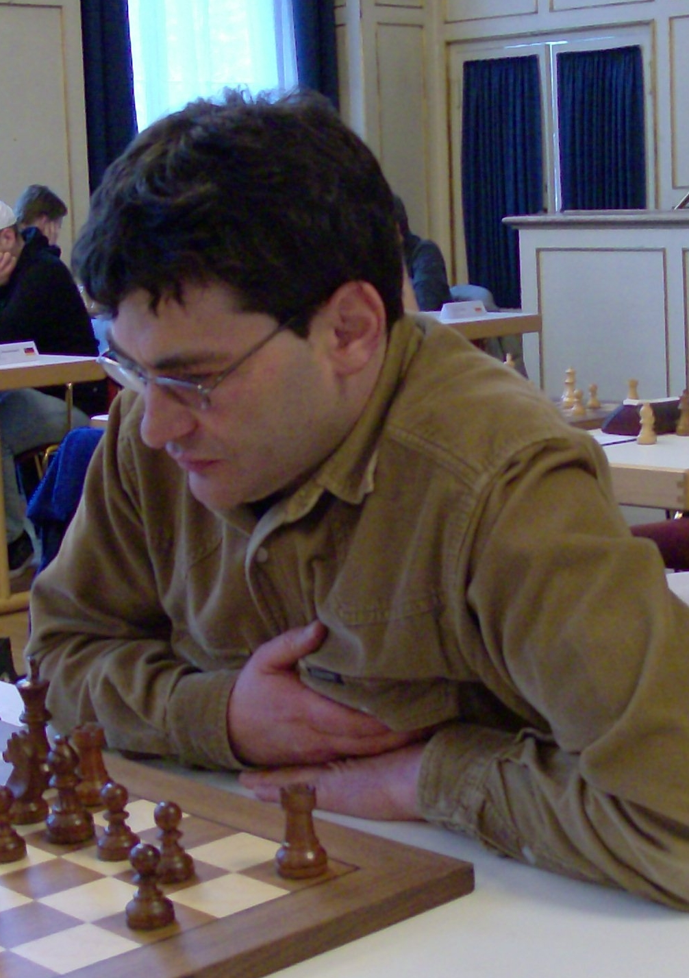 Leonid Milov, chess player from Germany